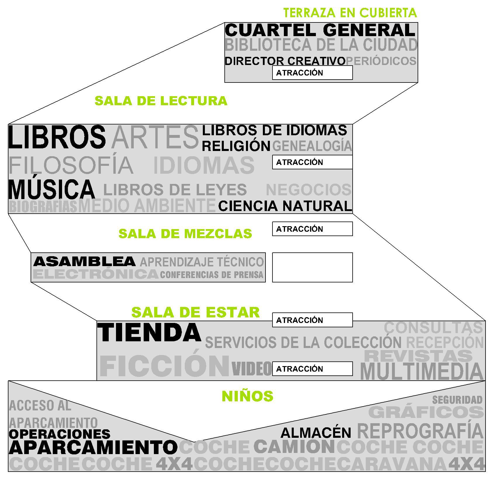 Scheme of the Central Seattle Public Library